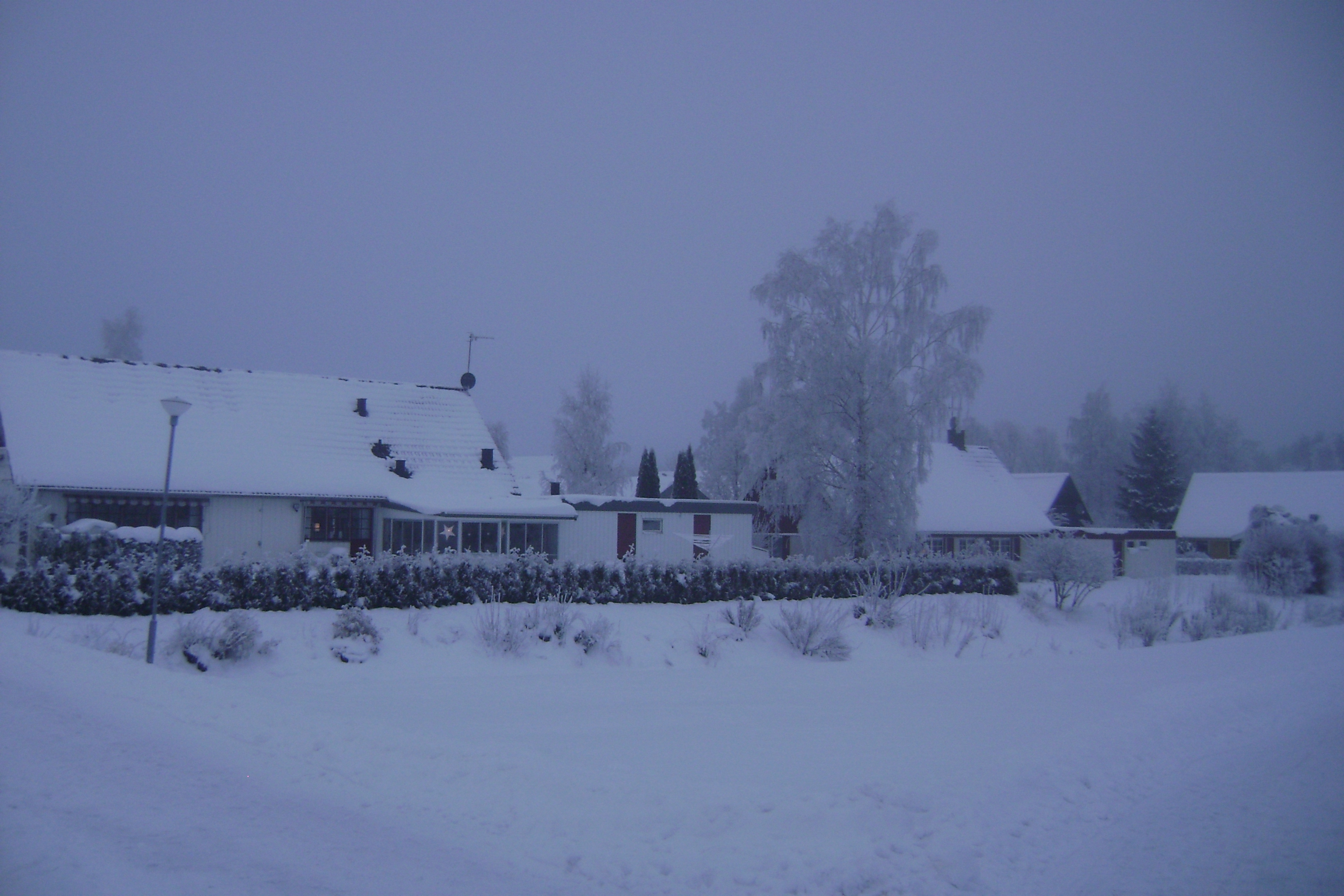 Habo, Sweden in January 2010. Typical Swedish single family houses of the early 1970's. Taken after Christmas, Christmas decorations seen in the windows.